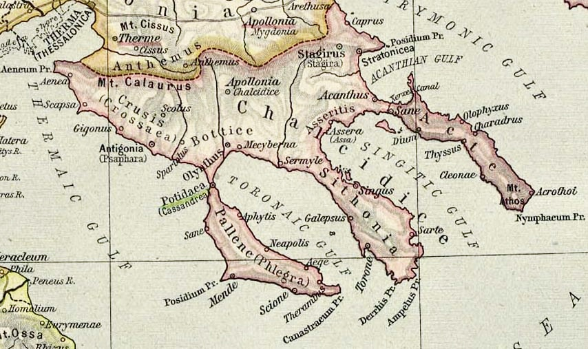 Map of Chalcidice, cropped from old public domain map of Greece, from the Perry-Castañeda Library Map Collection, Historical Atlas by William R. Shepherd north, south